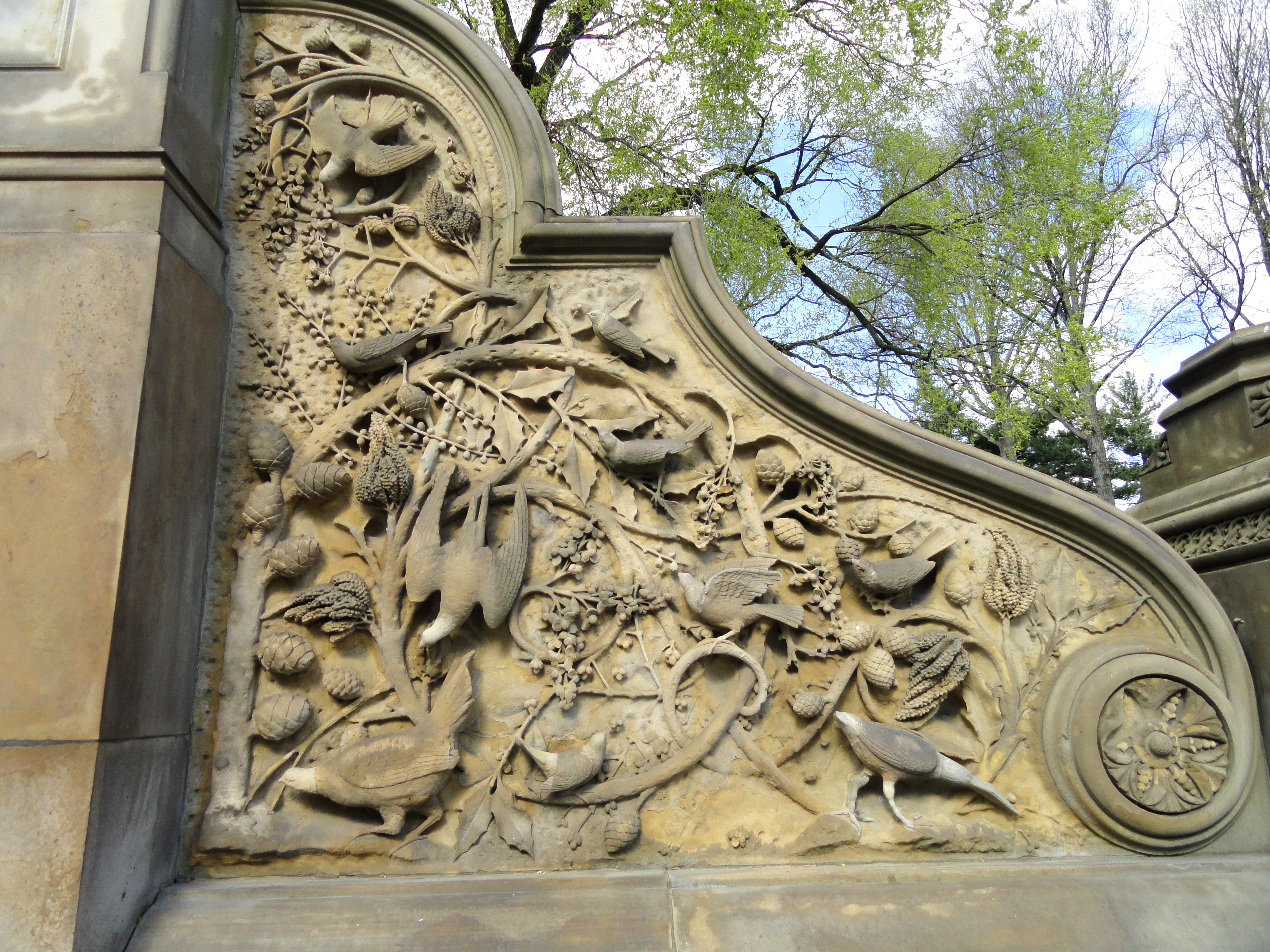 "Summer" relief panel, Bethesda Terrace, Central Park, Manhattan, New York City, New York, USA.